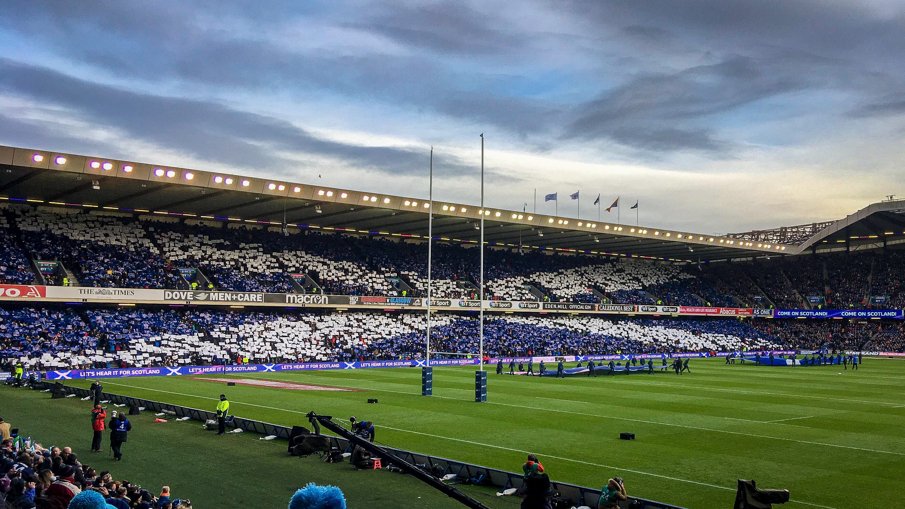 Murrayfield autumn 2017, before Scotland v Australia